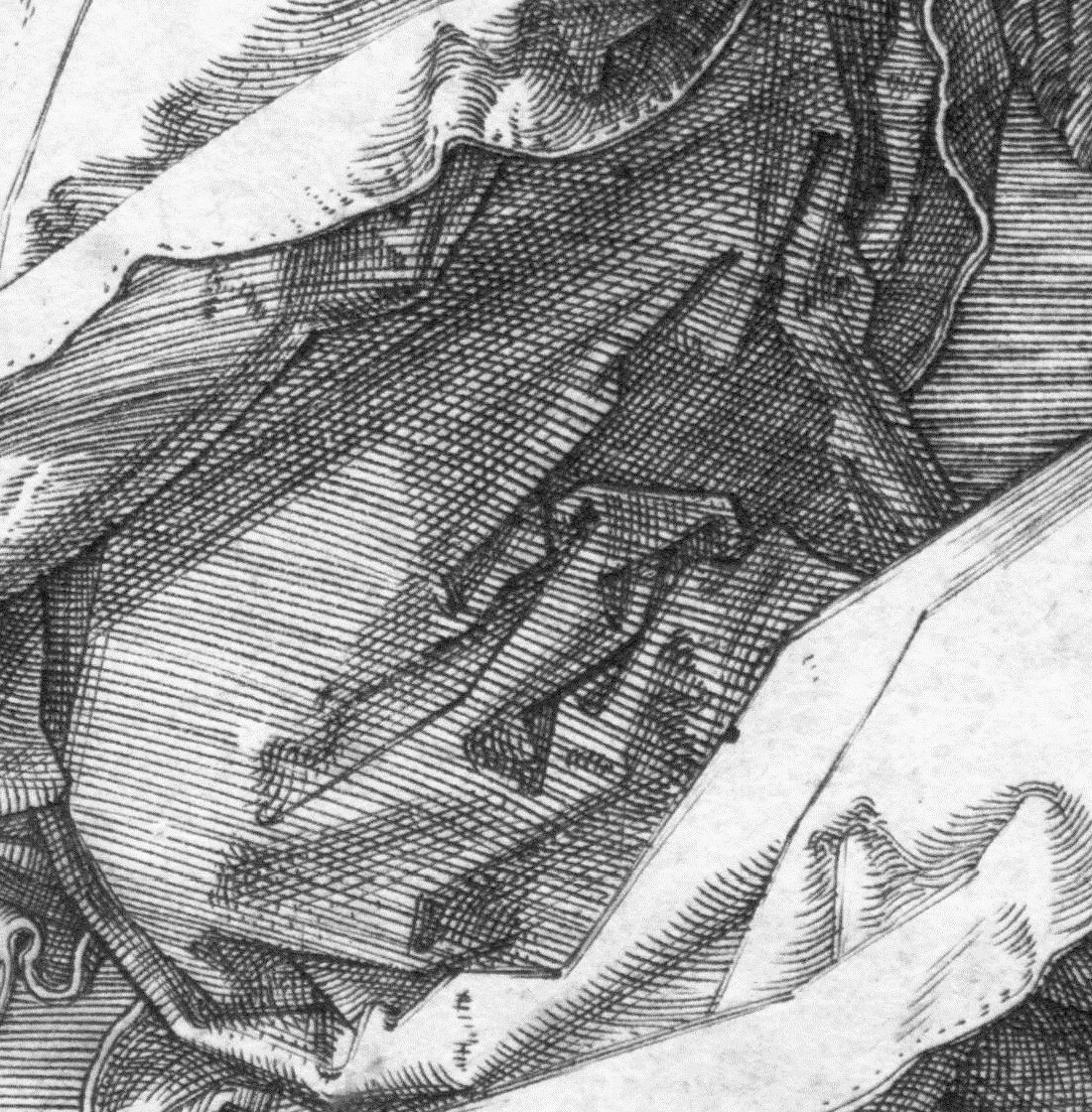 Example for the use of hatchings.